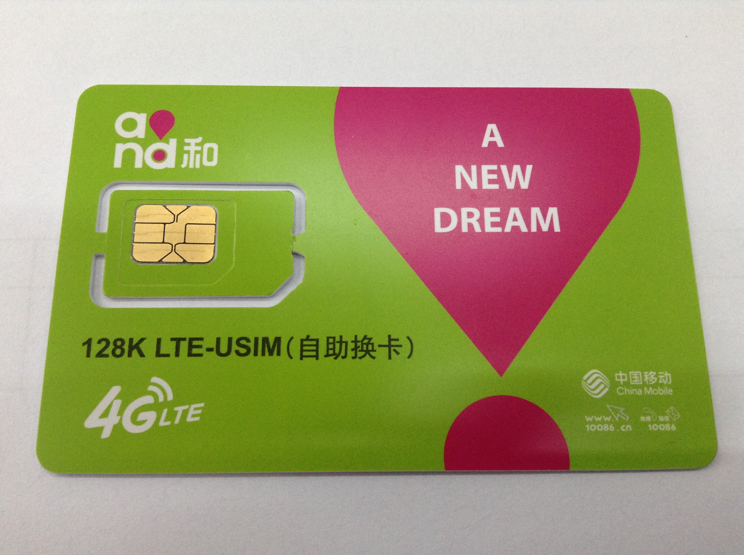 A LTE SIM card from China Mobile.